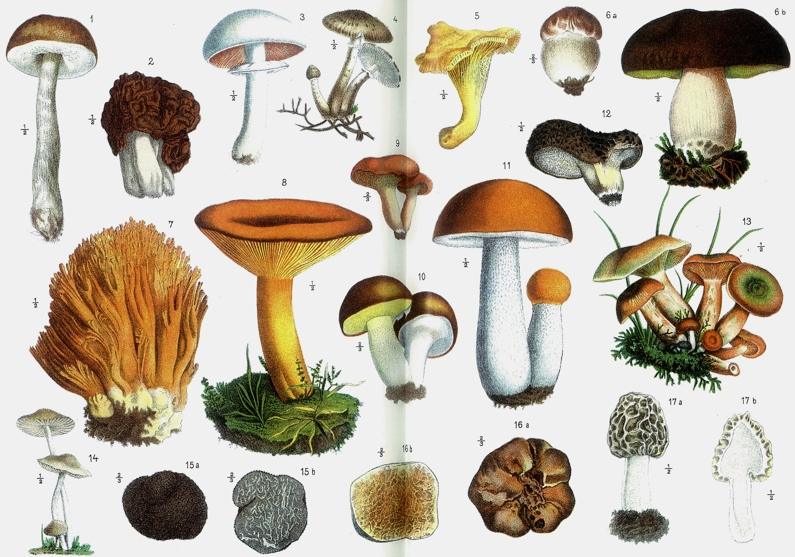 Edible mushrooms in Otto's Encyclopedia (1897).